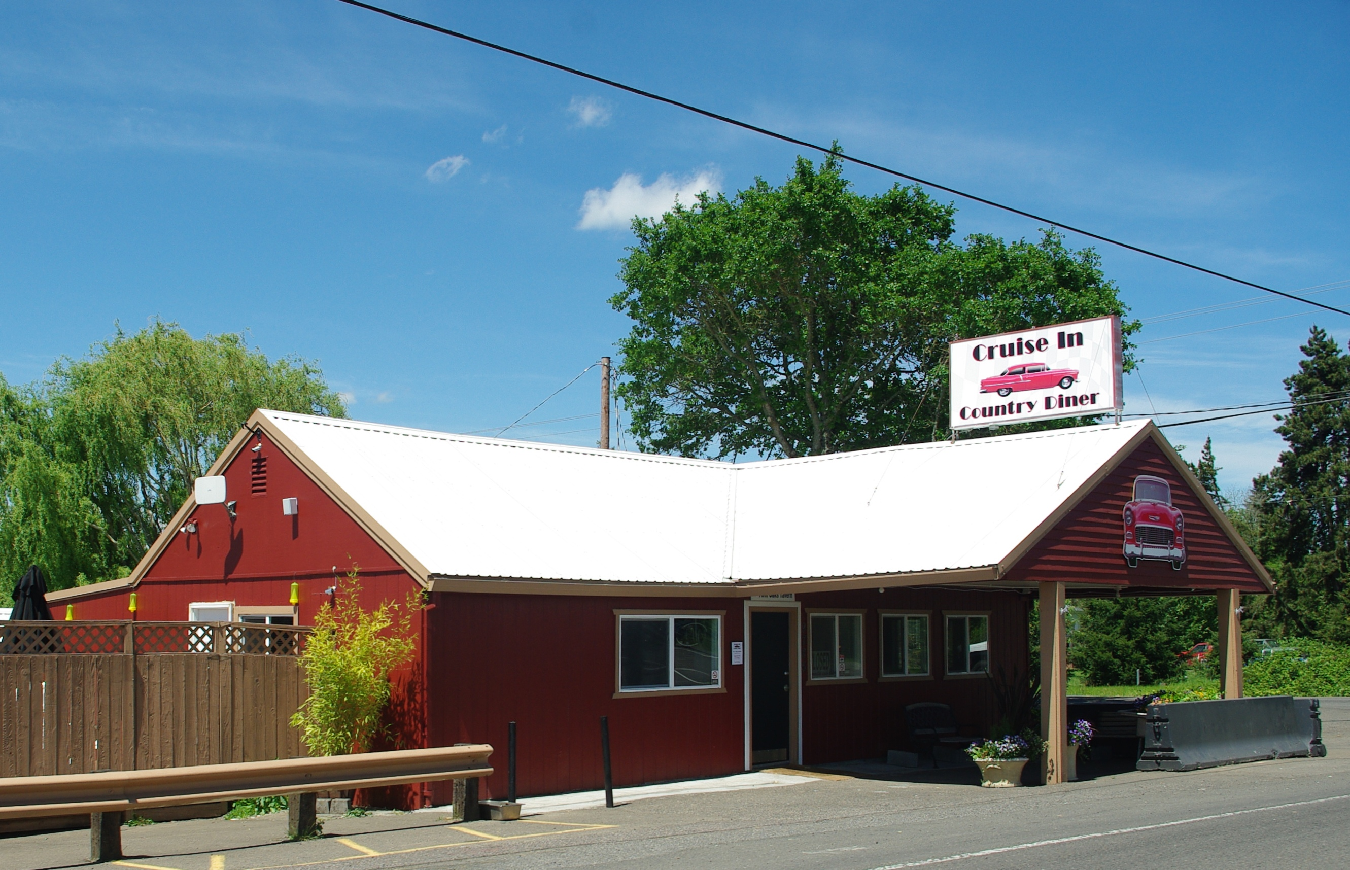 Cruise In Country Diner at Farmington, Oregon, south of Hillsboro, Oregon, USA.